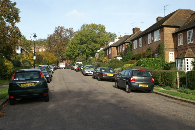 Cascade Avenue, N10 Part of the Rookfield Estate